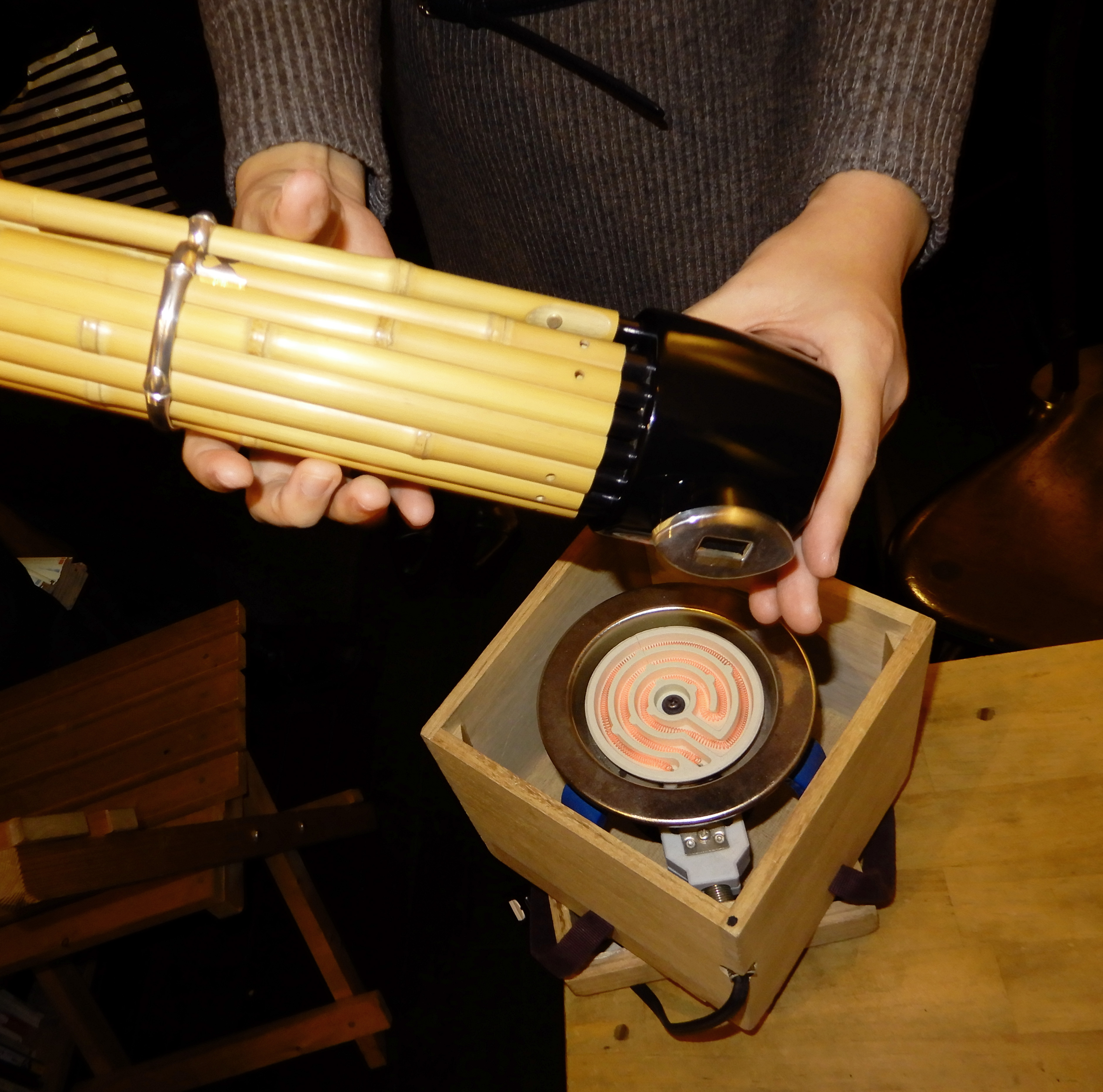 Ms.KANISASAREAYAKO and her special portable electrical stove for warming shō (sho). This photo was taken at the monthly event entitled BANDONEON TOMO NO KAI (Meeting of Bandoneons' Friends) which is held at the cafe HOMERI, 2f., BOW Building, San'ei-cho 25-33, Shinjuku City, Tokyo.